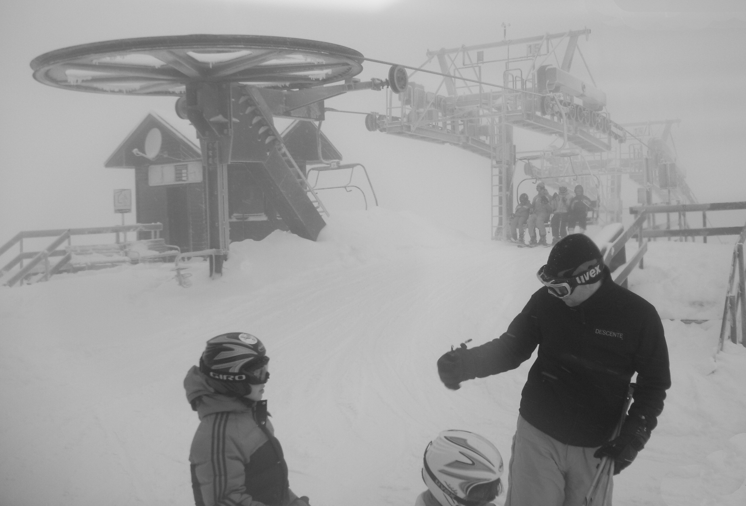 Mountain station of chairlift Koliesko–Luková in Jasná ski resort